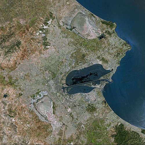 Tunis by SPOT Satellite